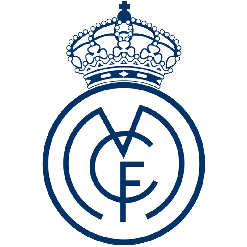 Logo of Real Madrid C.F., the first to have a crown.